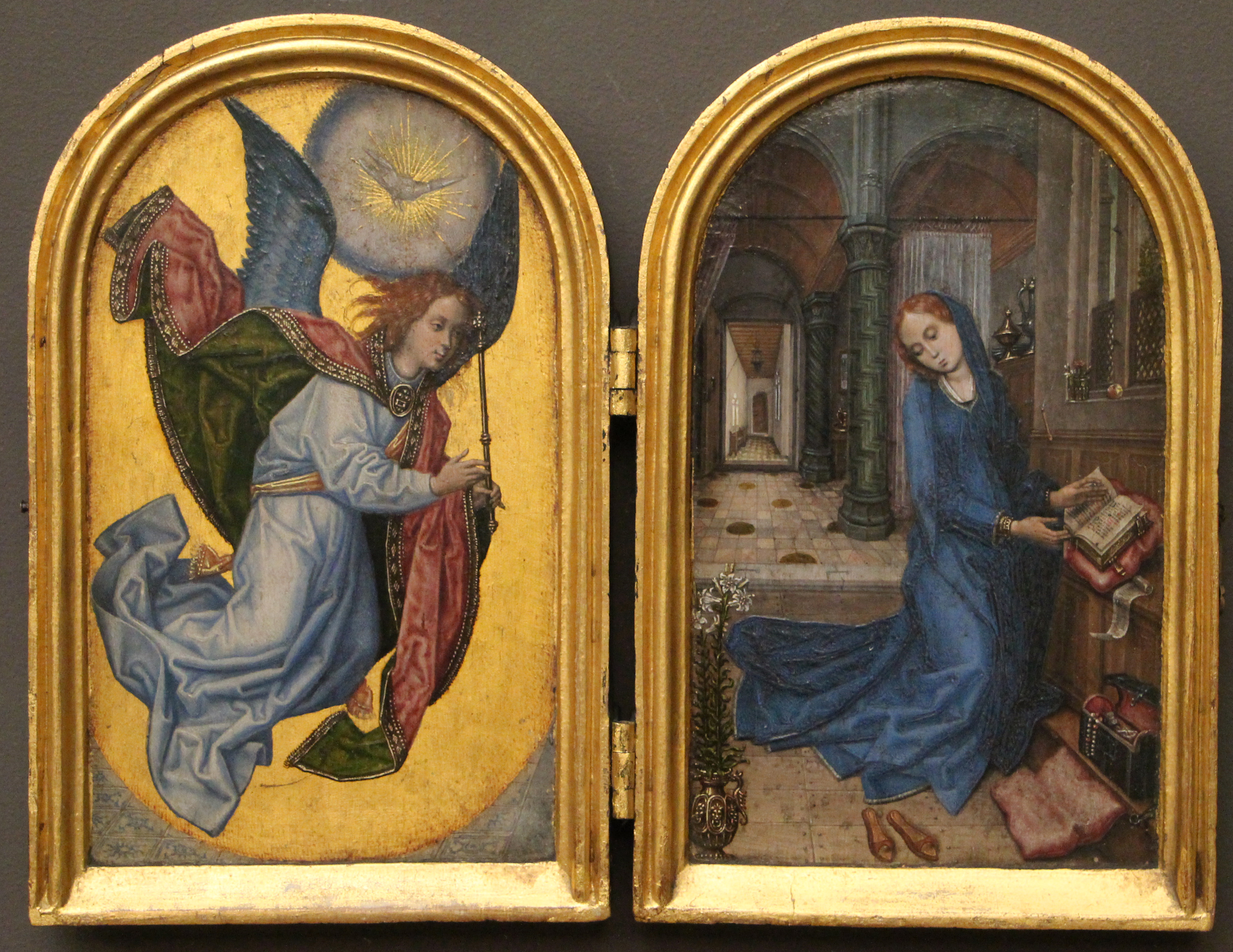 Diptych with the angel Gabriel and the Virgin